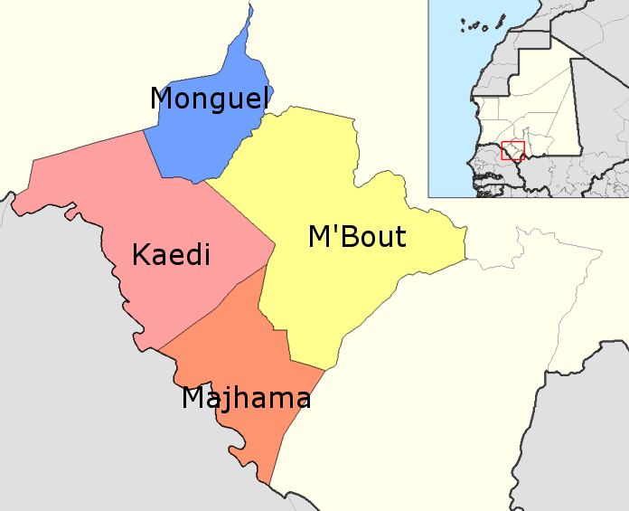 A simple adaptation of User:Rarelibra's Image:Gorgol departments.png, consisting simply of using GIMP to rewrite the name on the map using a larger typeface. User:McTrixie